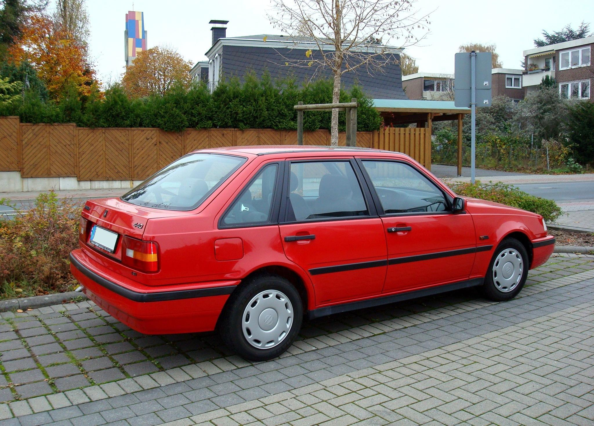 Volvo 440 -1994- side